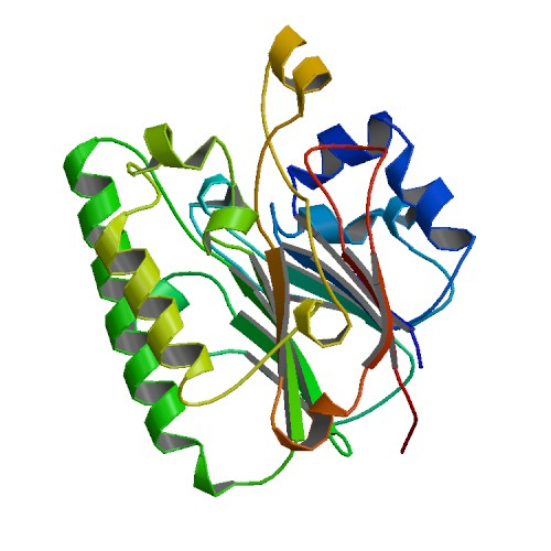 Chrystal structure of the Crc binding protein in P.aeruginosa